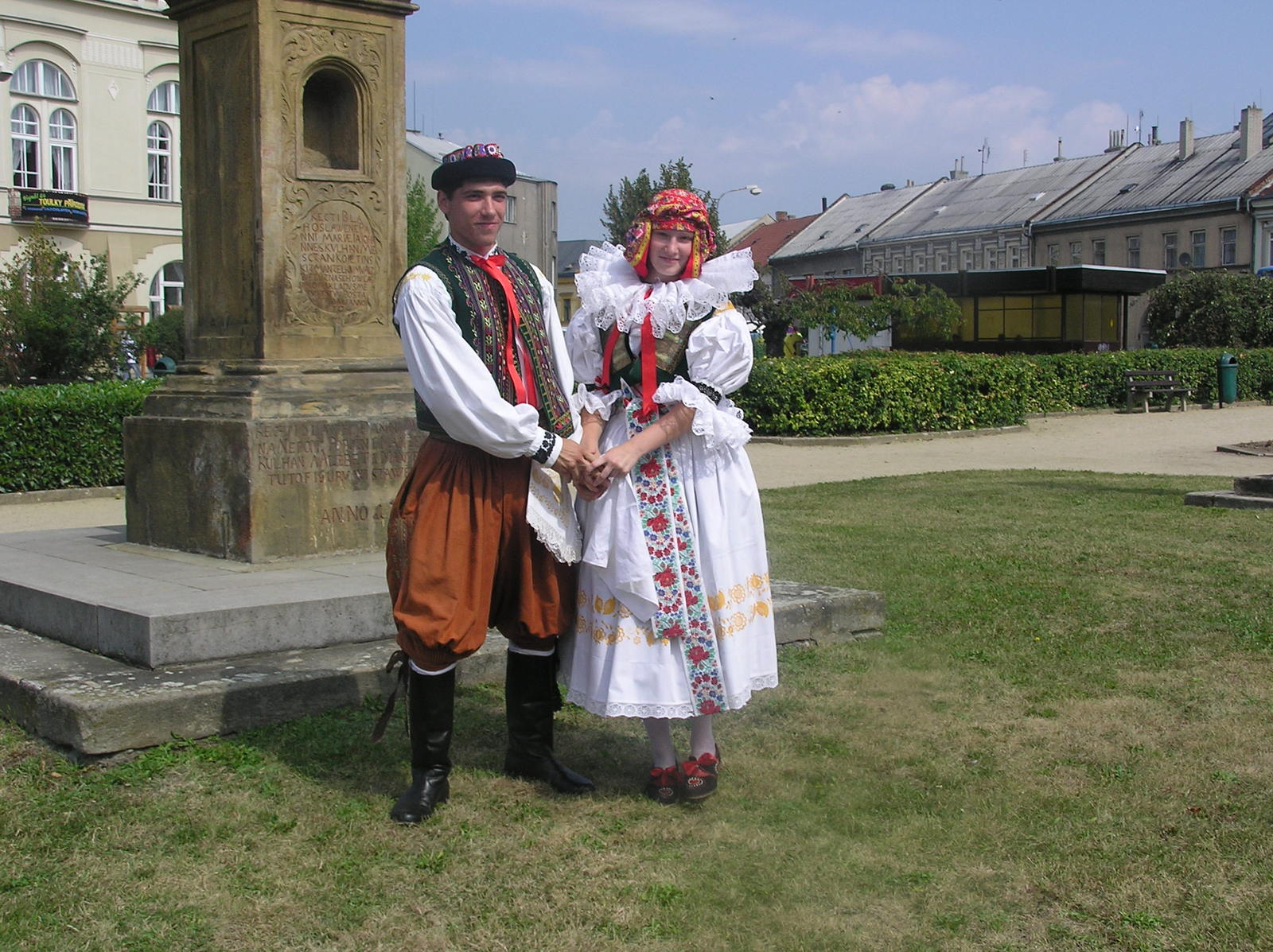 National costumes of Haná region